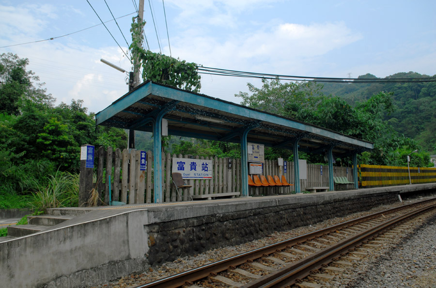 FuGuei Station is a small local train station on NeiWan Line, a branch line of TRA. It's located within the boundary of HengShan Township, HsinChu County, and is a staffless station.